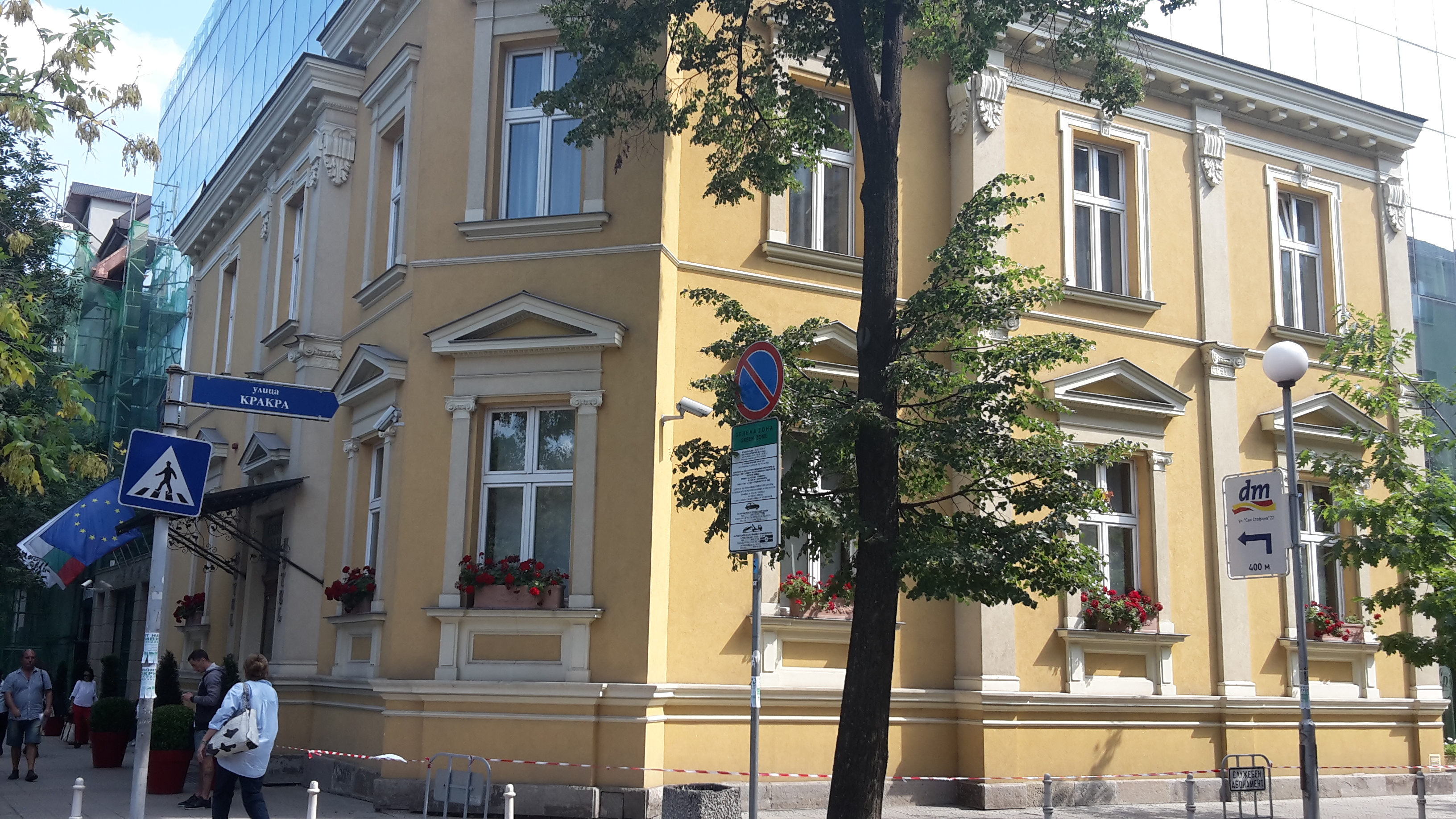 View to the Georgov House in Sofia